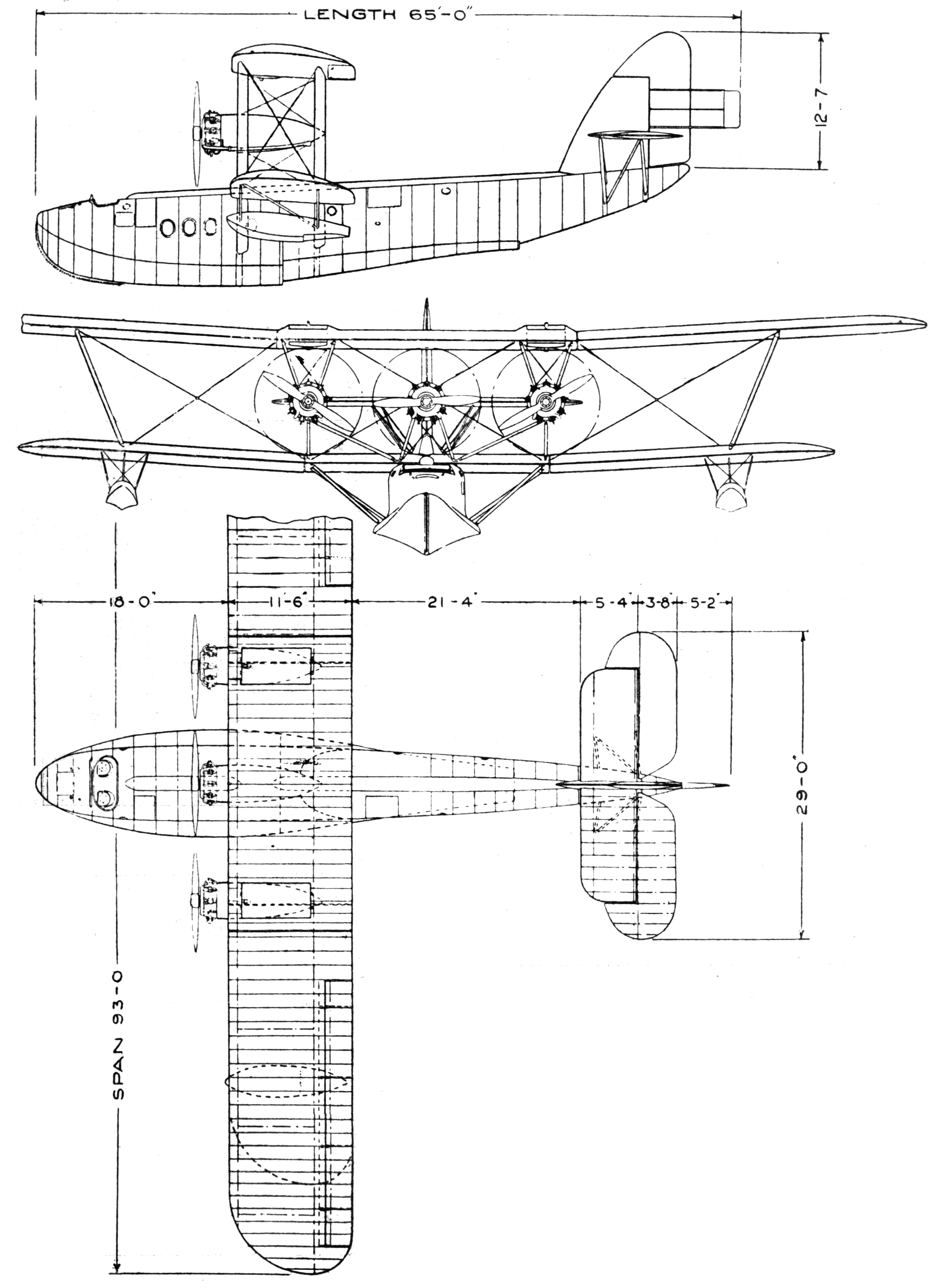 Short Calcutta 3-view drawing from L'Air February 1,1927